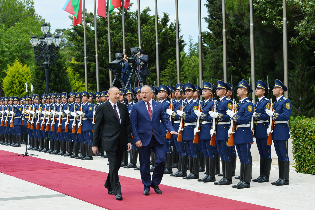 Official welcoming ceremony held for Moldovan president Igor Dodon